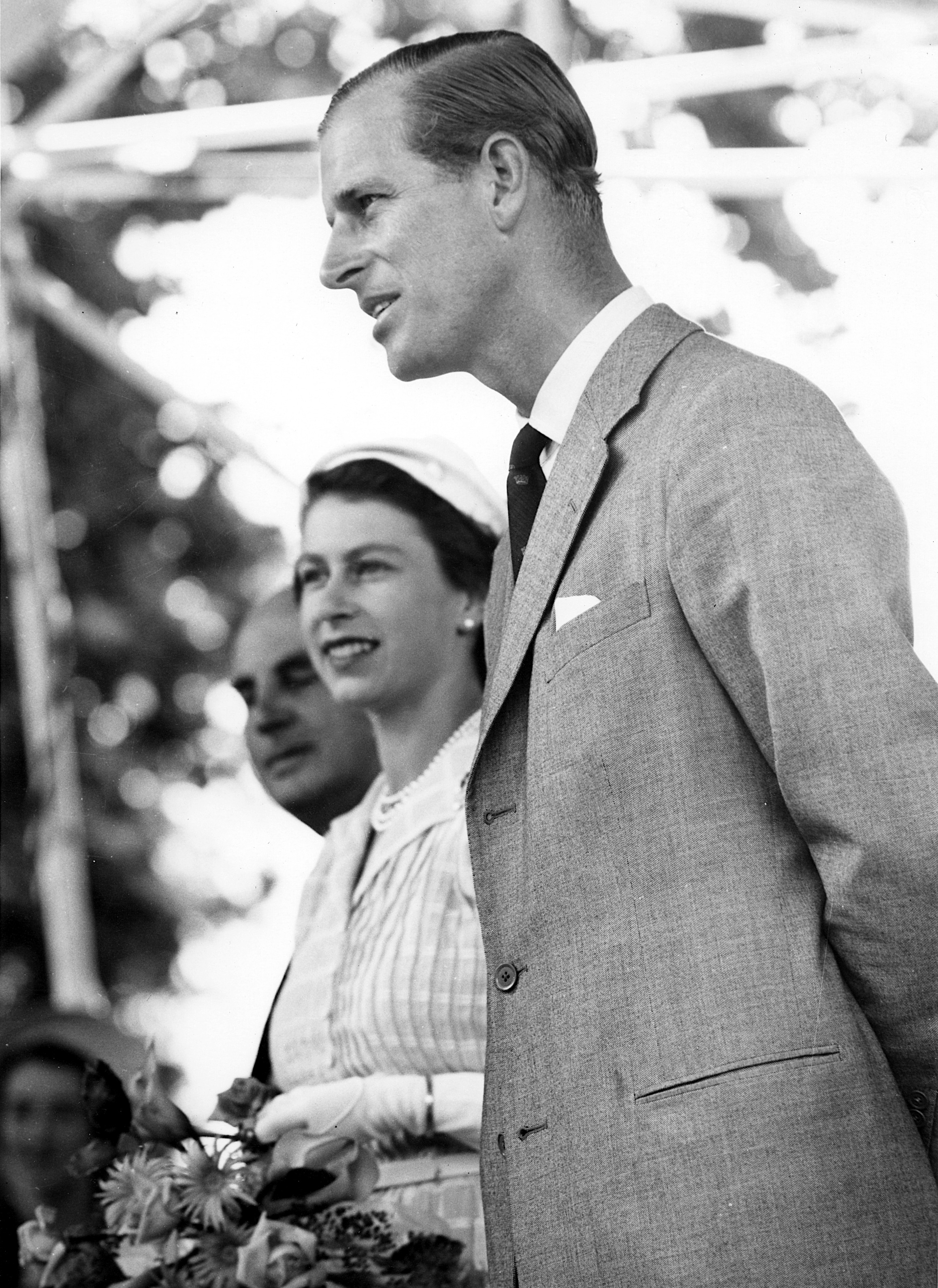 On June 10 1921, Prince Philip, Duke of Edinburgh was born. He is the husband of Queen Elizabeth II. He is the longest-serving, oldest-ever spouse of a reigning British monarch, and the longest-lived male member of the British royal family. A member of the House of Schleswig-Holstein-Sonderburg-Glücksburg, Prince Philip was born in Greece into the Greek and Danish royal families, but his family was exiled from Greece when he was an infant. After being educated in France, Germany, and the United Kingdom, he joined the British Royal Navy in 1939, at the age of 18. From July 1939, he began corresponding with the 13-year-old Princess Elizabeth (his third cousin through Queen Victoria, and the elder daughter and heir presumptive of King George VI) whom he had first met in 1934. After the war, Philip was granted permission by George VI to marry Elizabeth. Before the official announcement of their engagement, he abandoned his Greek and Danish royal titles, converted from Greek Orthodoxy to Anglicanism, and became a naturalised British subject, adopting the surname Mountbatten, from his maternal grandparents. After an engagement of five months, as Lieutenant Philip Mountbatten, he married Elizabeth on 20 November 1947. A keen sports enthusiast, Philip helped develop the equestrian event of carriage driving. He is a patron of over 800 organisations and chairman of the Duke of Edinburgh's Award scheme for people aged 14 to 24 years. This image of Prince Philip was taken by the National Publicity Studios during the Royal Tour of 1953/1954. Queen Elizabeth II and Prince Philip are pictured here in Cambridge, Waikato on January 1 1954. Reference: AAQT 6538 W3537 box 1 (R21434655) For further information please For updates on our On This Day series and news from Archives New Zealand, follow us on Twitter Material from Archives New Zealand